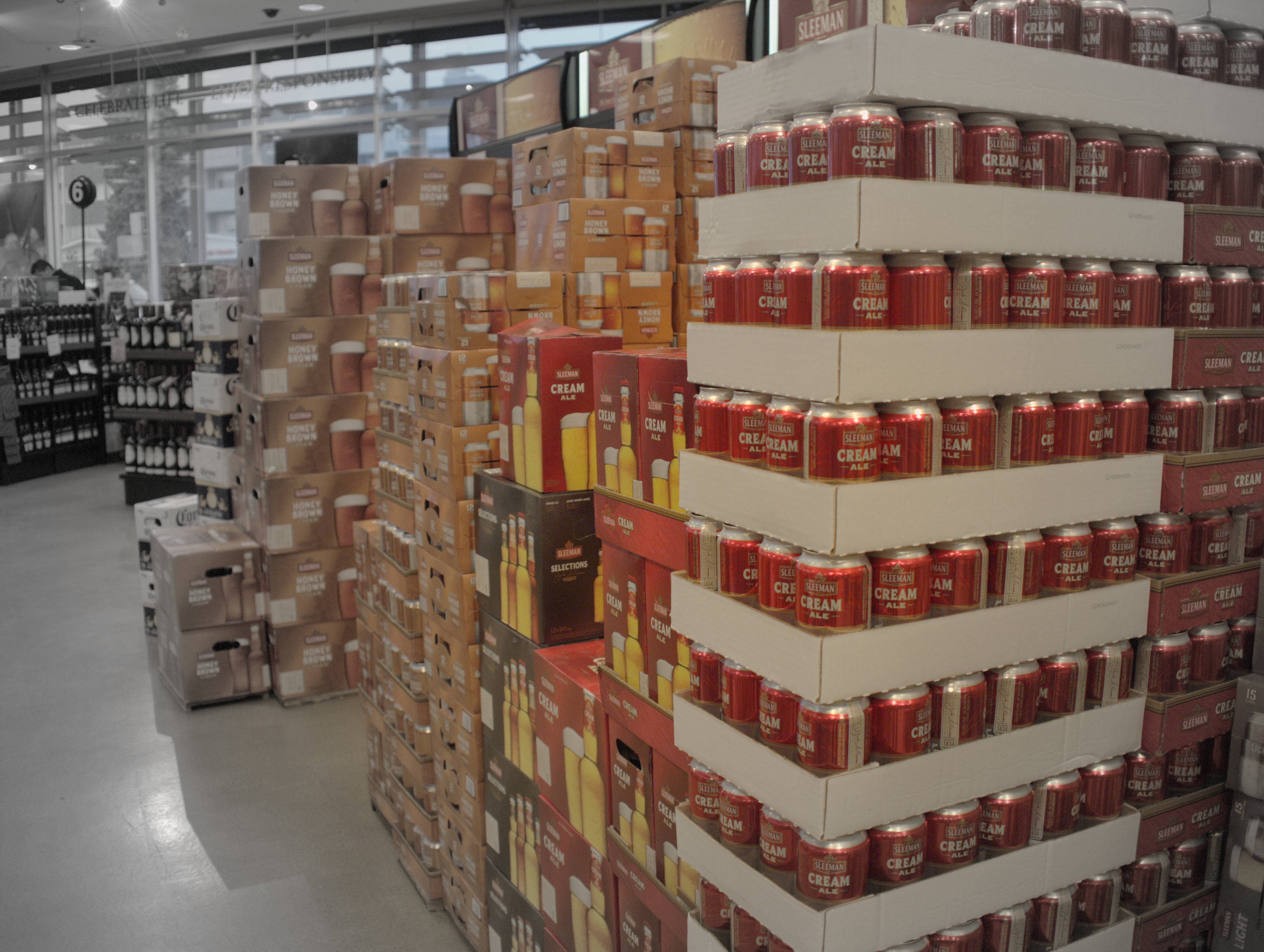 Photo of the interior of a BC Liquor Store